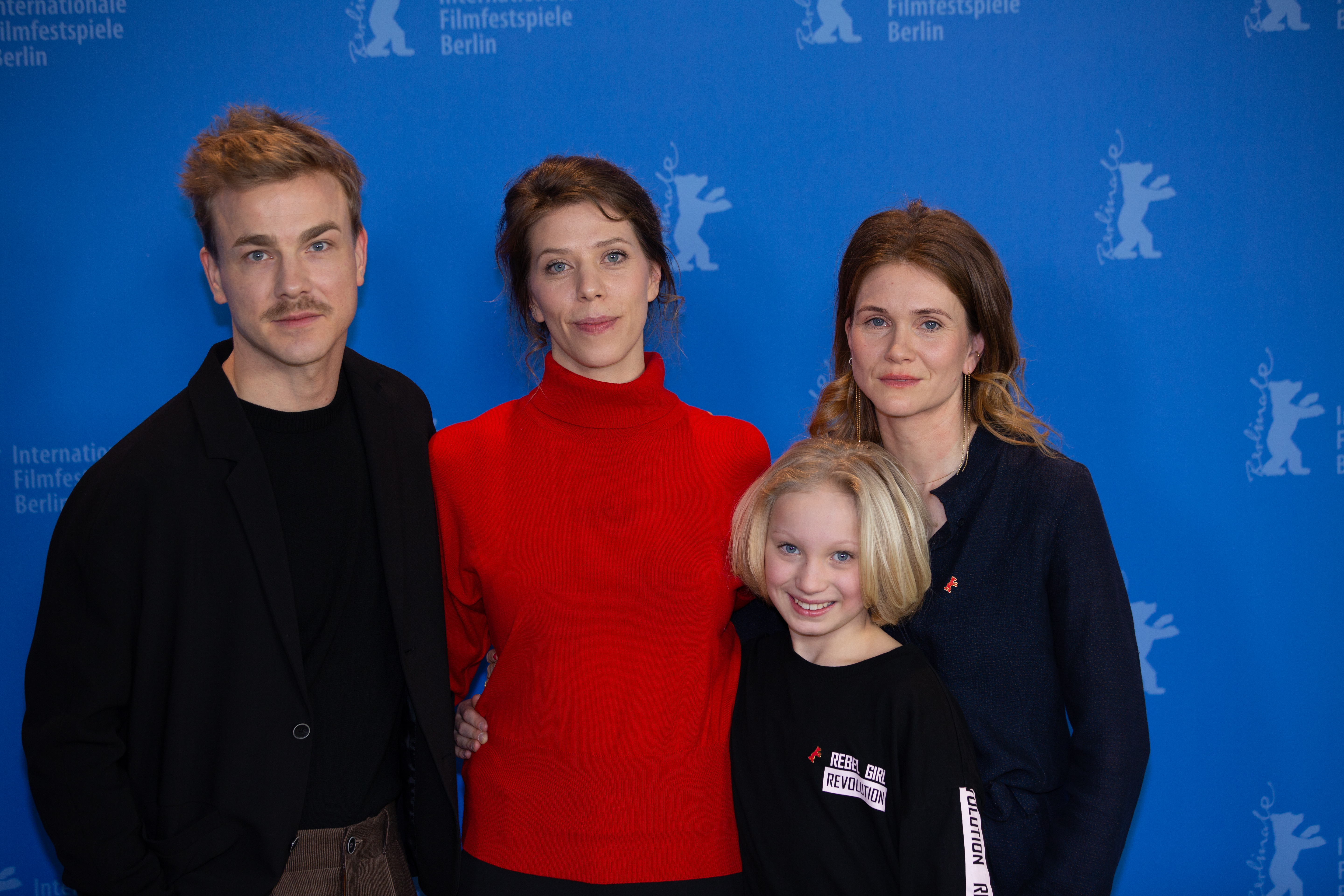 Crew of the film System Crasher at the Berlinale 2019